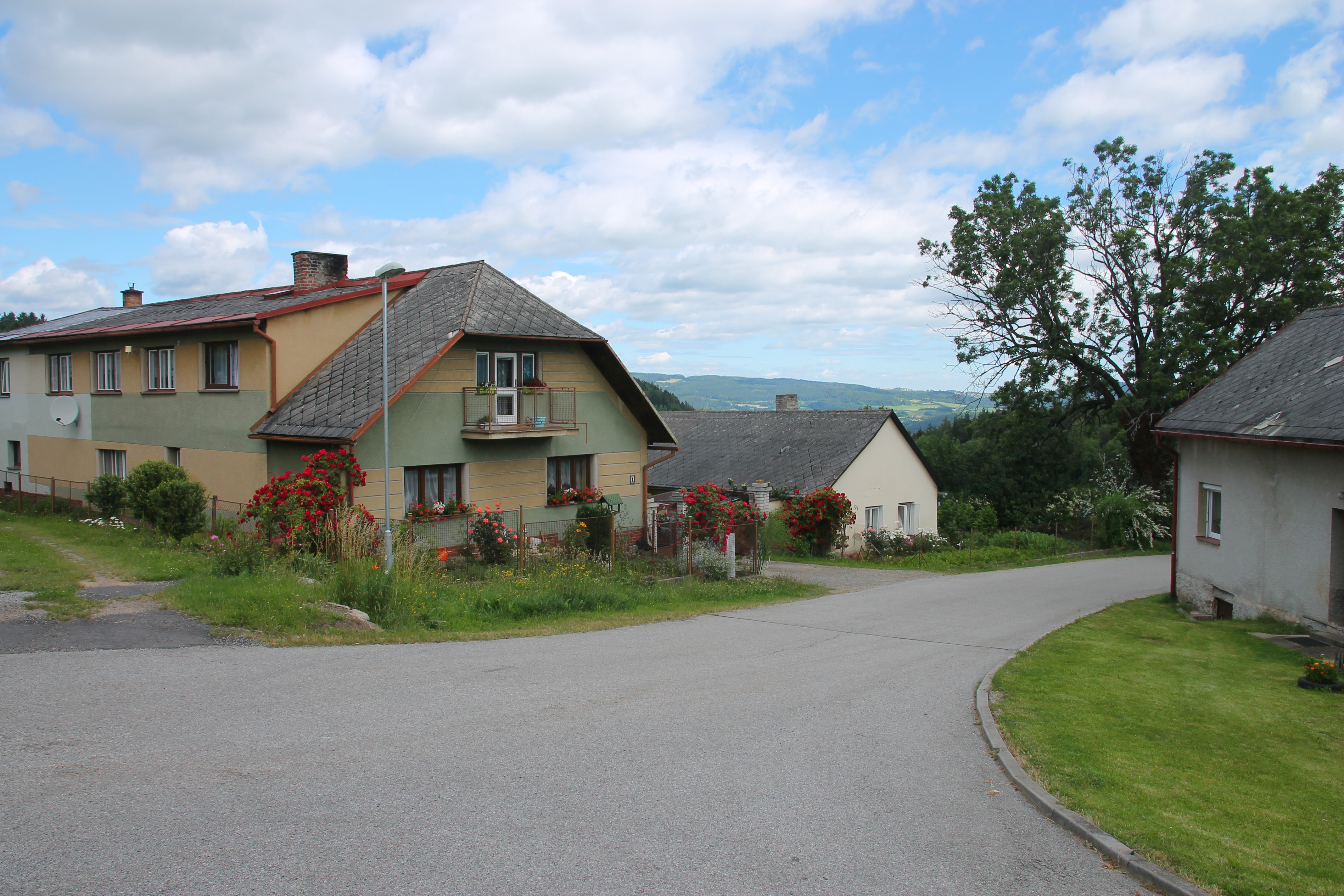 Boubská, Vimperk